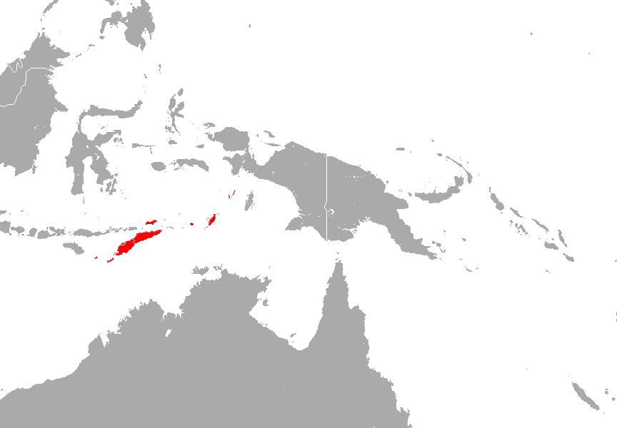 Indonesian Tomb Bat (Taphozous achates) range